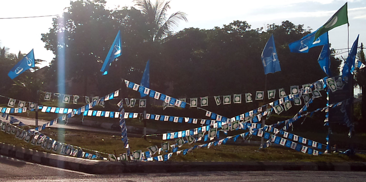 13thGE flag wars in Klang Valley